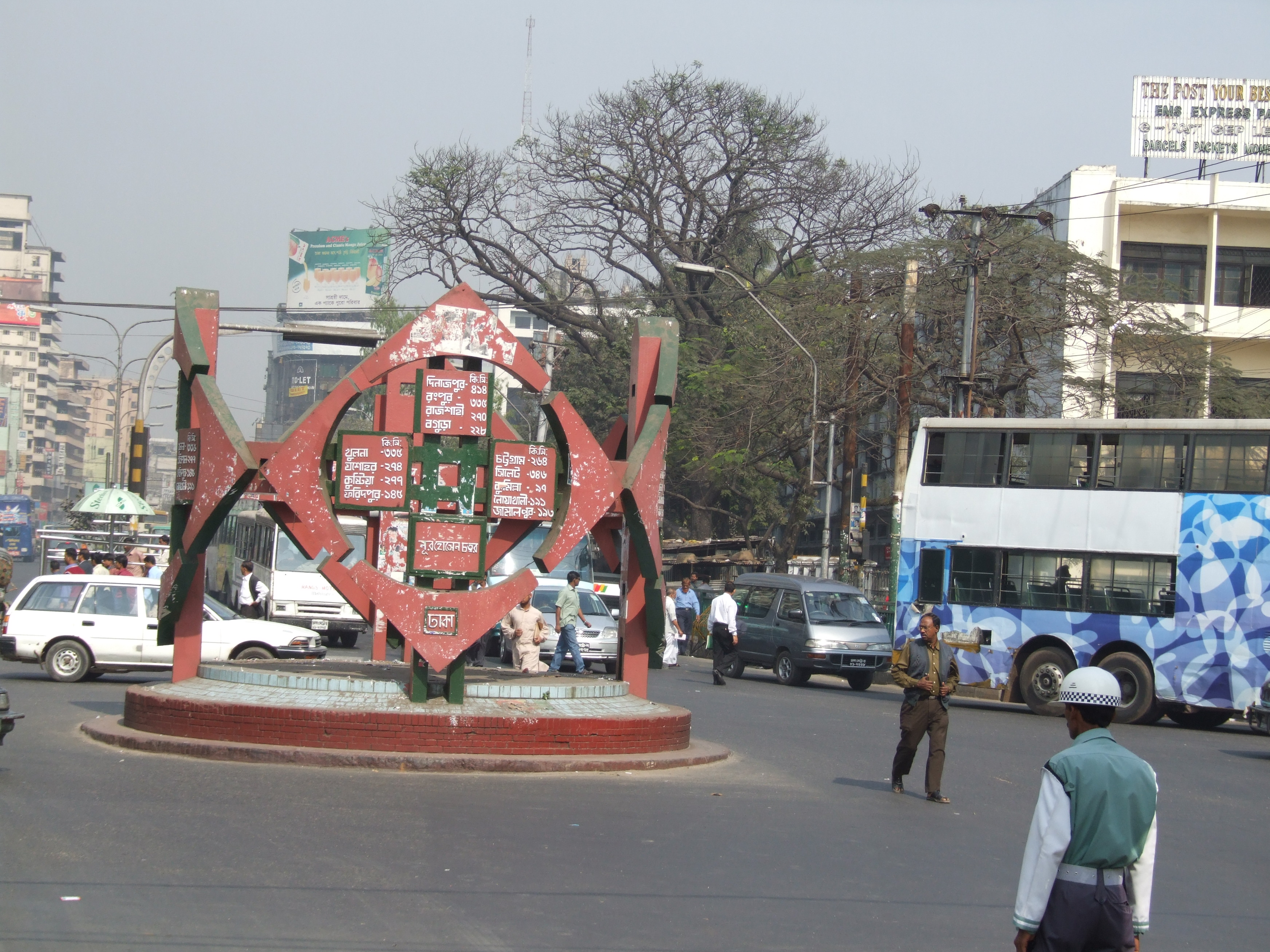 Nur Hossain Round about (Zero point, Dhaka, Bangladesh.)